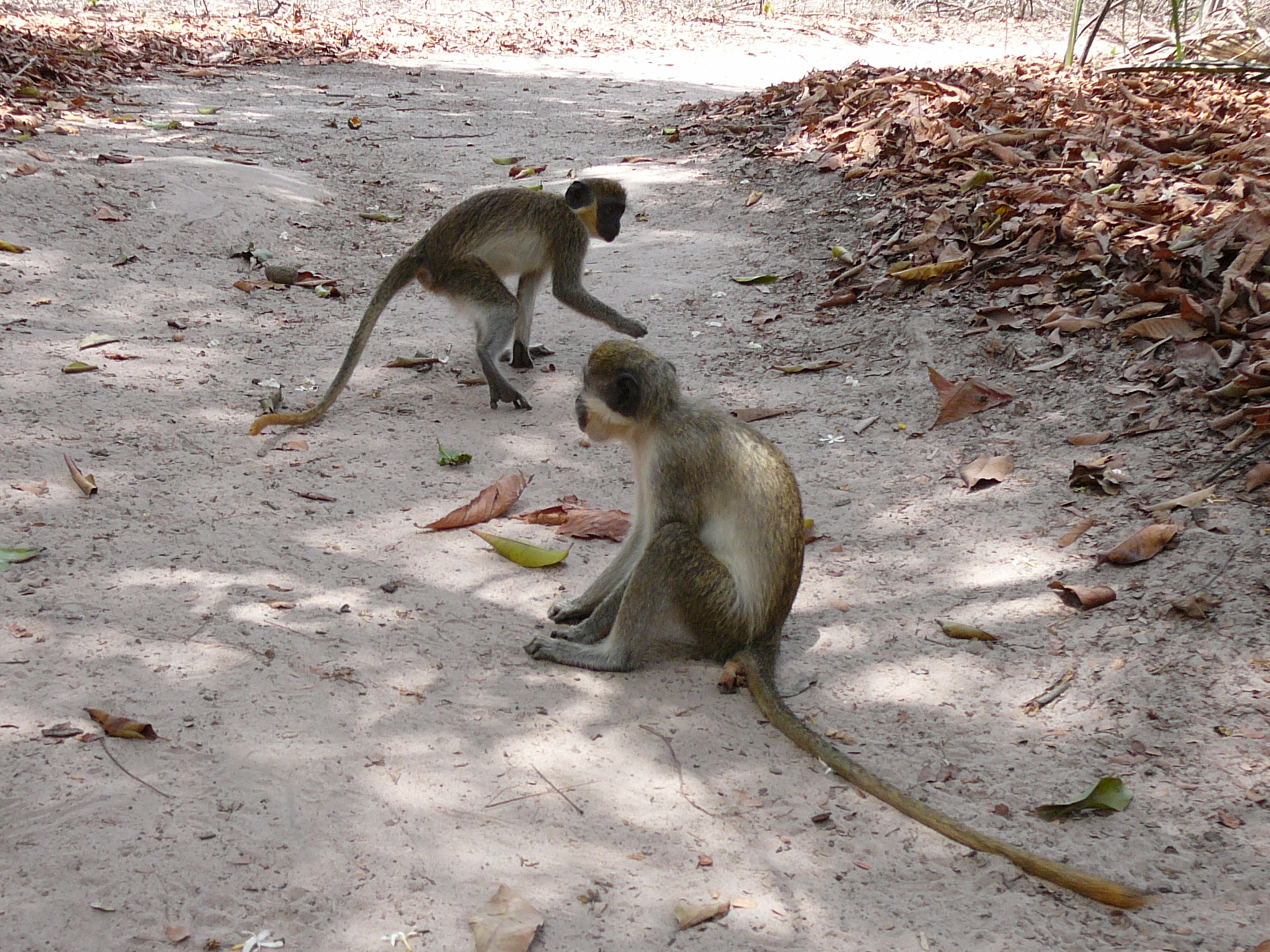 Green Monkey